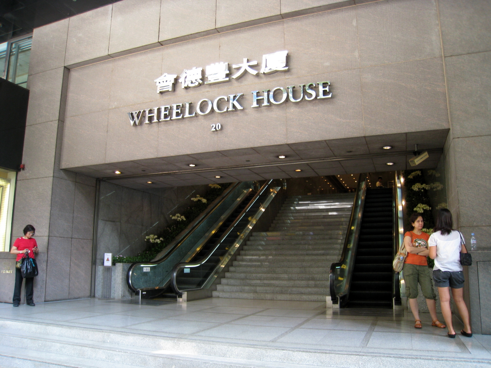 HK Wheelock House Enterance